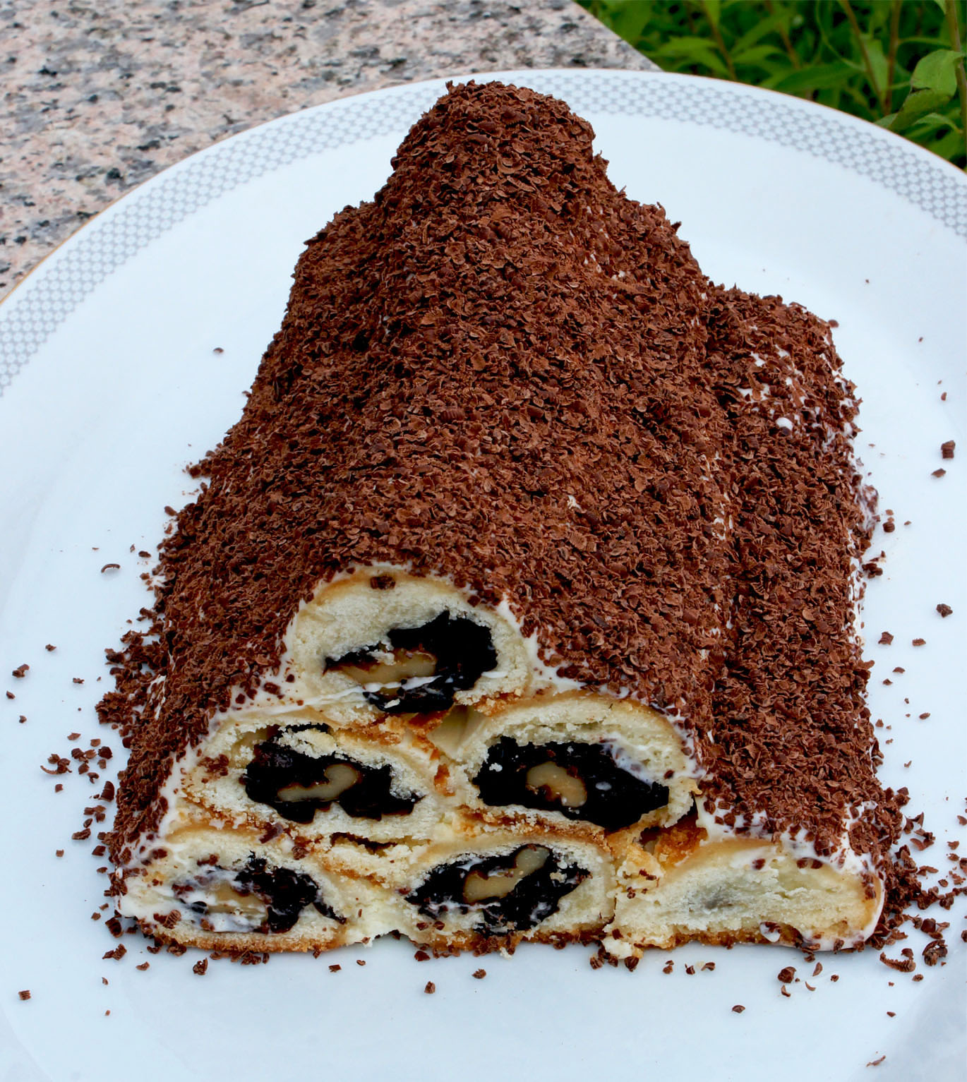 Russian cake named "Monastyrskaya izba", in a version with dried plums.